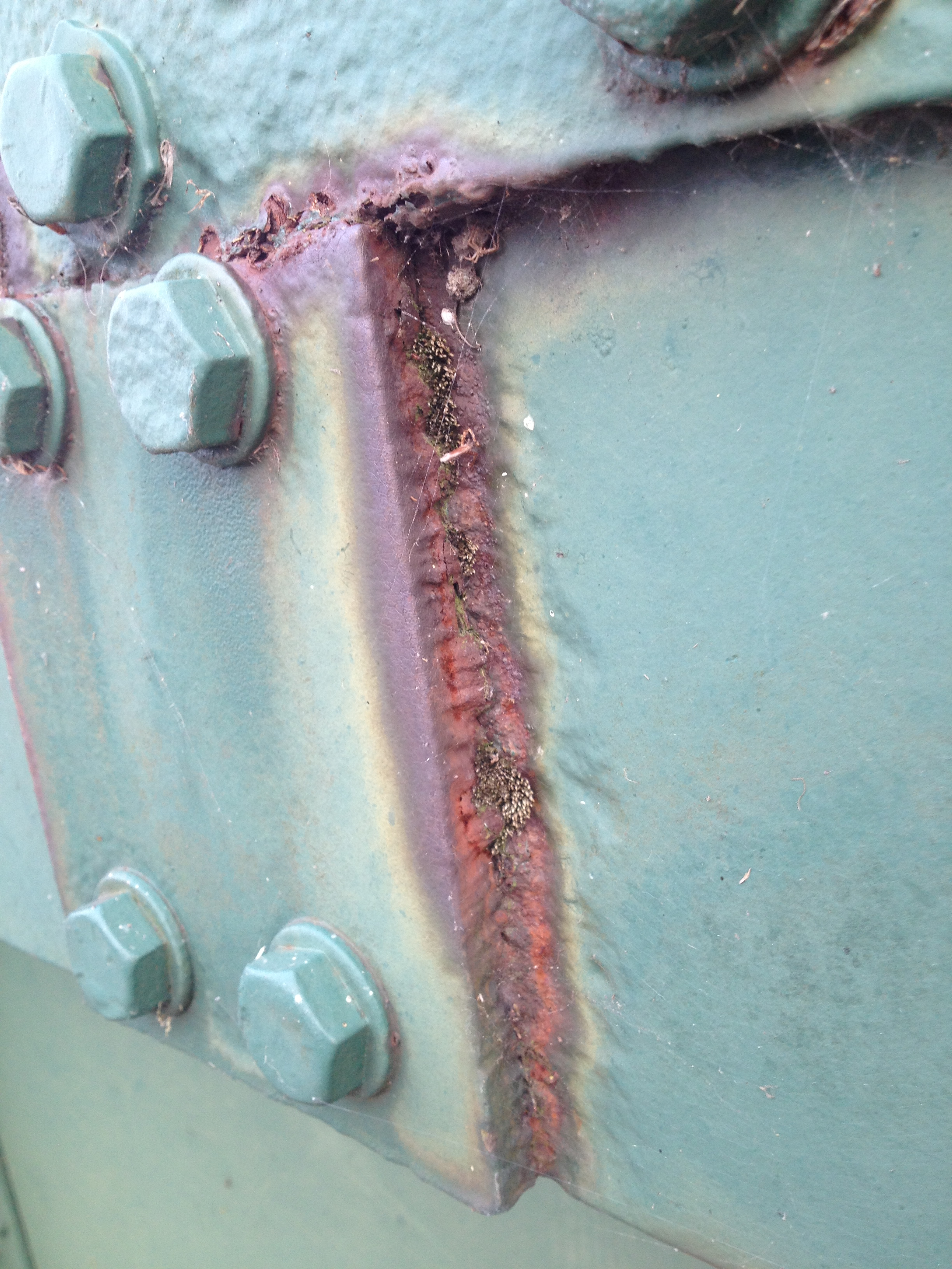 poorly designed railway bridge parapet adjustment showing very bad edge corrosion